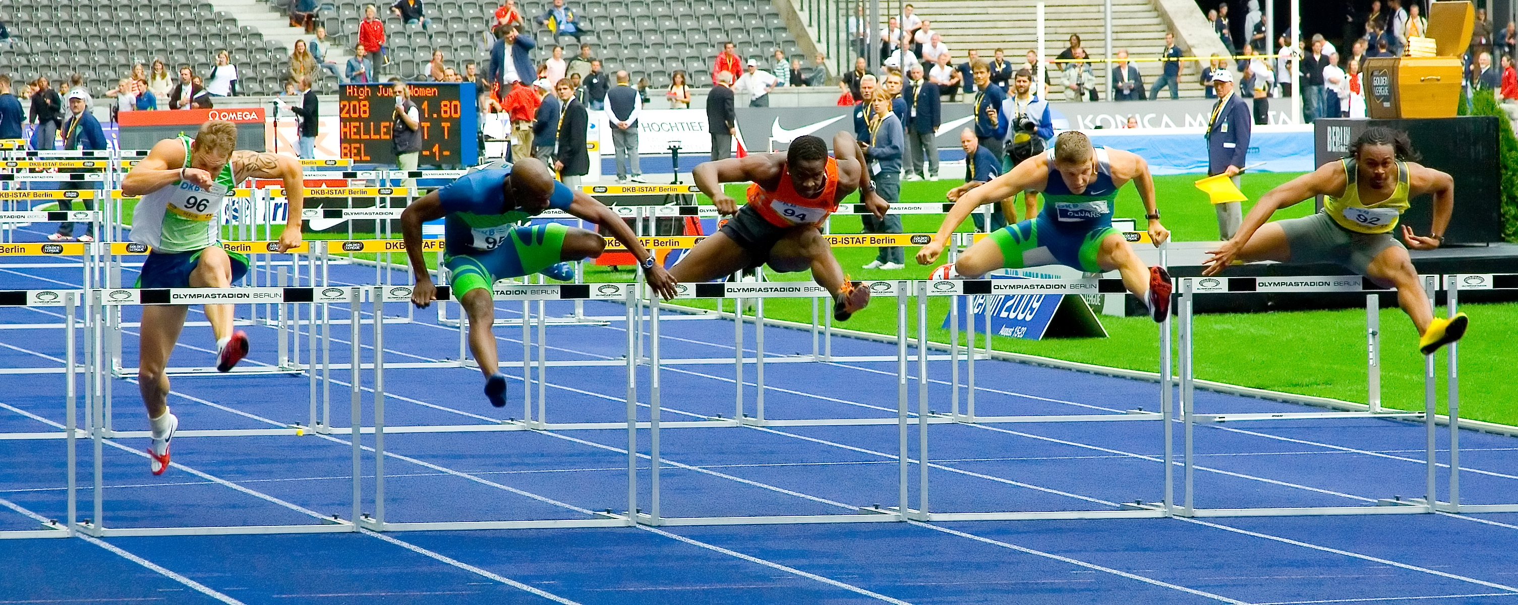 110Hü Thomas Blaschek, Allen Johnson, Dayron Robles, Stanislav Olijars, Aries Merritt